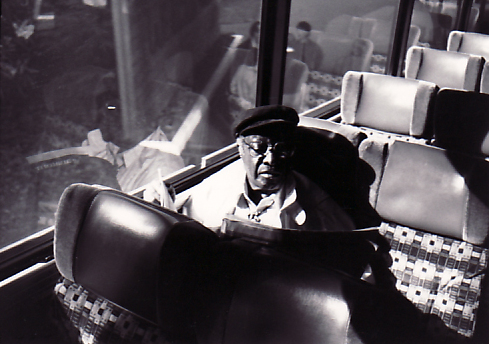 Milt Hinton (Otter Crest, Oregon. May 1989.)